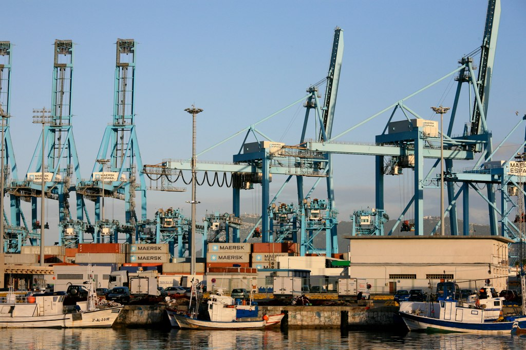 This is as close as I could get before the Police stopped me!